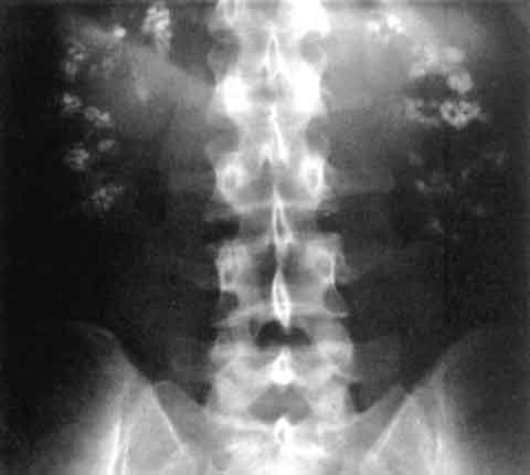 Personal xray jpg